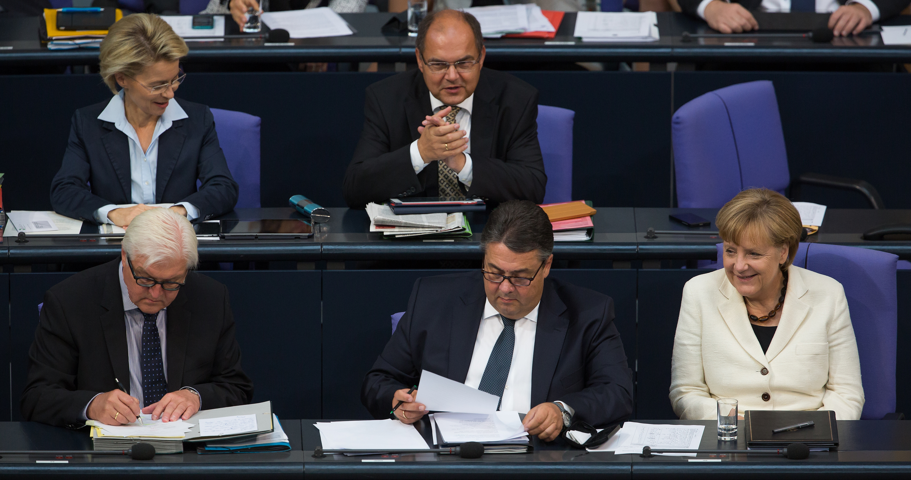 Picture taken during Wikipedia Bundestag project 2014. Angela Merkel, Sigmar Gabriel, Frank-Walter Steinmeier, Christian Schmidt, Ursula von der Leyen.